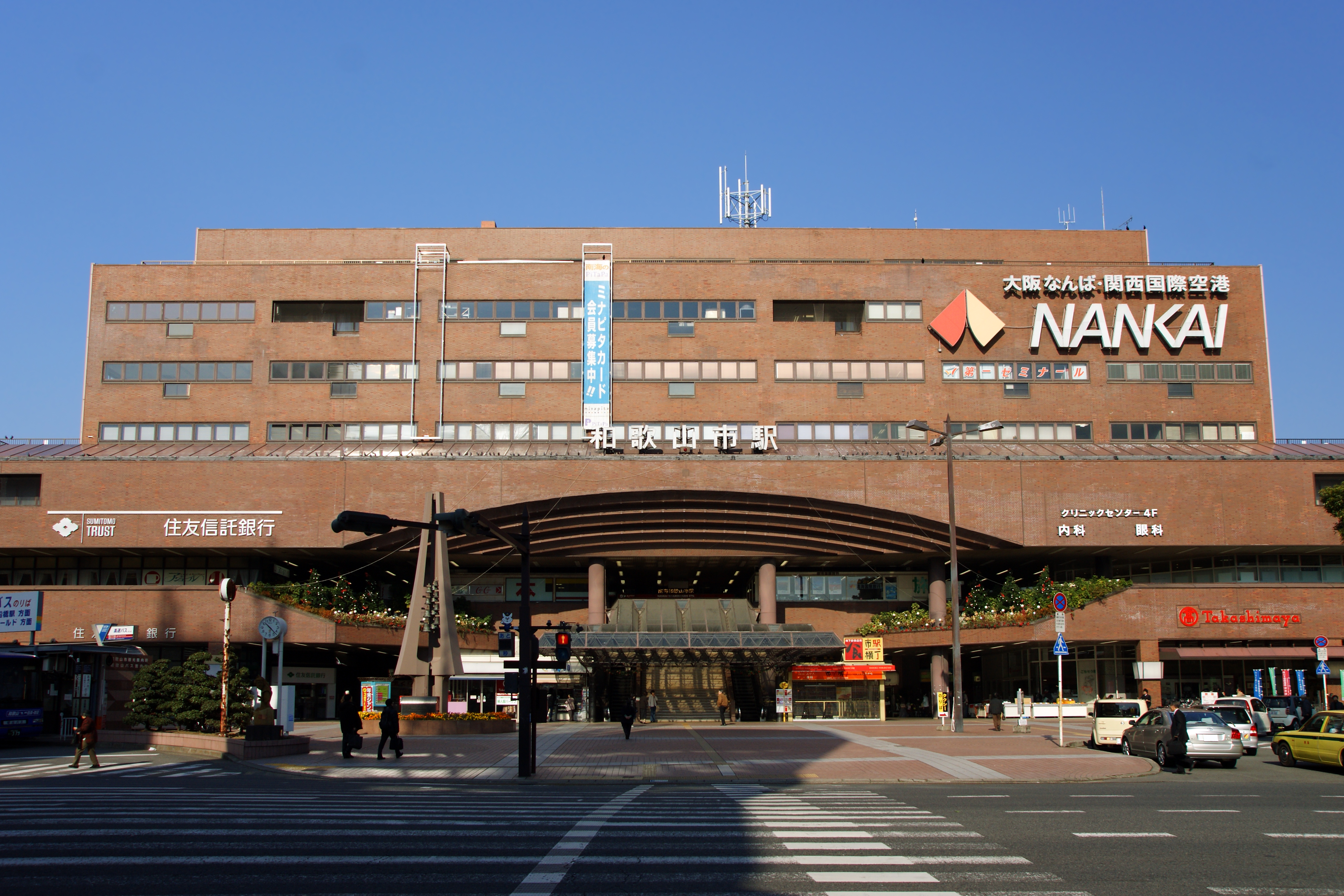 Wakayamashi Station, Wakayama, Wakayama prefecture, Japan